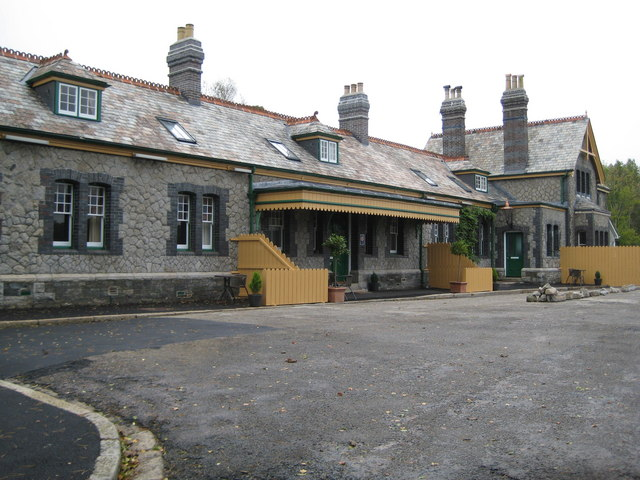 Tavistock North railway station Original description: Tavistock: Former Tavistock North railway station